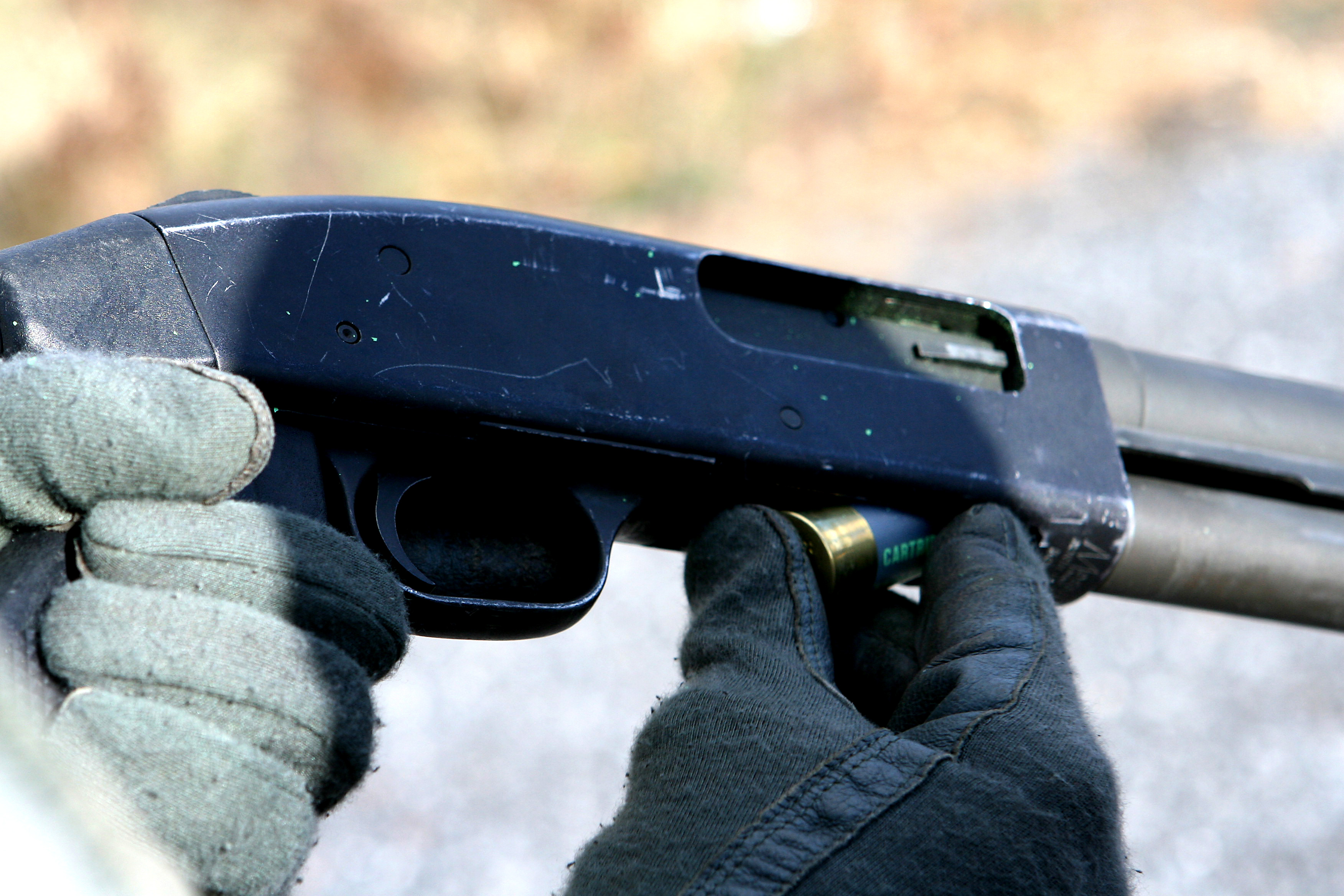 U.S. Army Sgt. Willie Cotton, a mechanic assigned to the 10th Mountain Division's Company B, 710th Brigade Support Battalion, 3rd Brigade Combat Team, loads his shotgun with a non-lethal shell filled with rubber pellets during training on Fort Drum, N.Y., Nov. 19, 2008.